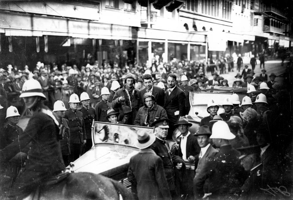 People lined up along a Brisbane street to see Sir Charles Kingsford Smith, 1928 Police form a line between the crowds of people spilling from the footpaths, and the car carrying Sir Charles Kingsford Smith on his arrival at Brisbane in 1928. Kingsford Smith is dressed in his flying jacket and cap.